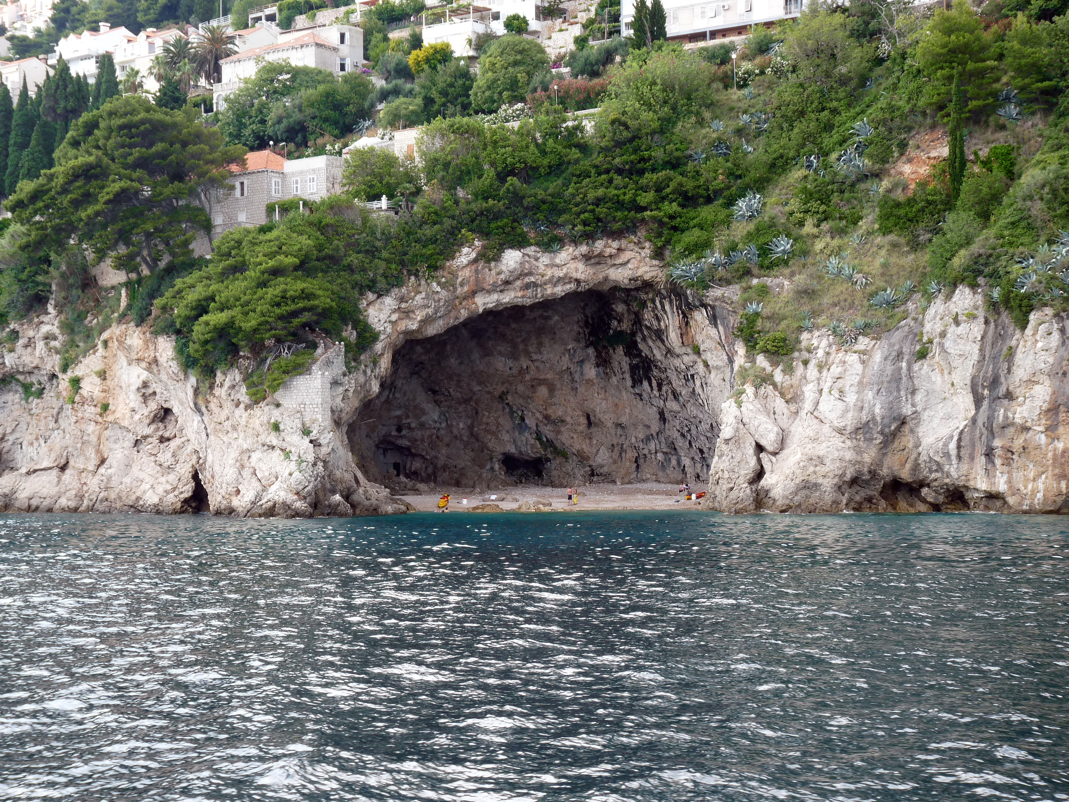 Sea Cave Beach, Dubrovnik.